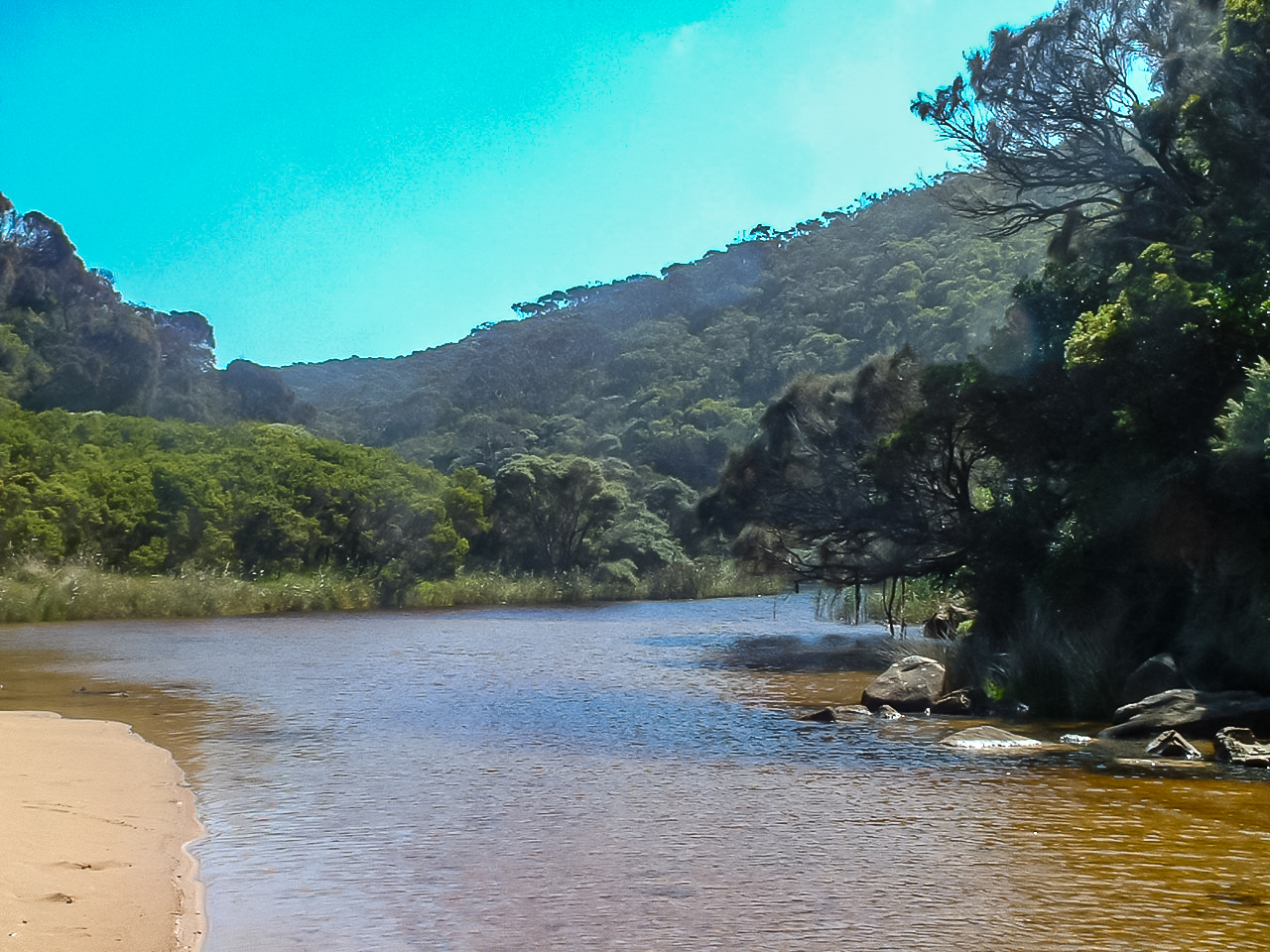 The Parker River, looking north from the river mouth.